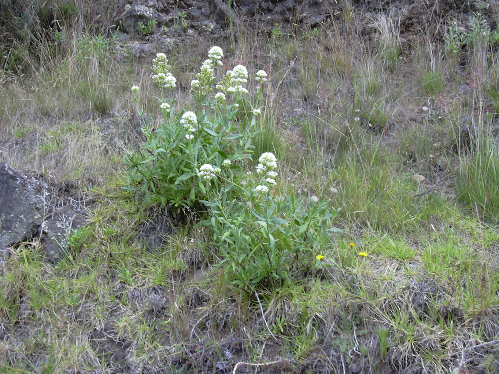 Centranthus ruber (flowering habit). Location: Maui, Pohakuokala Gulch